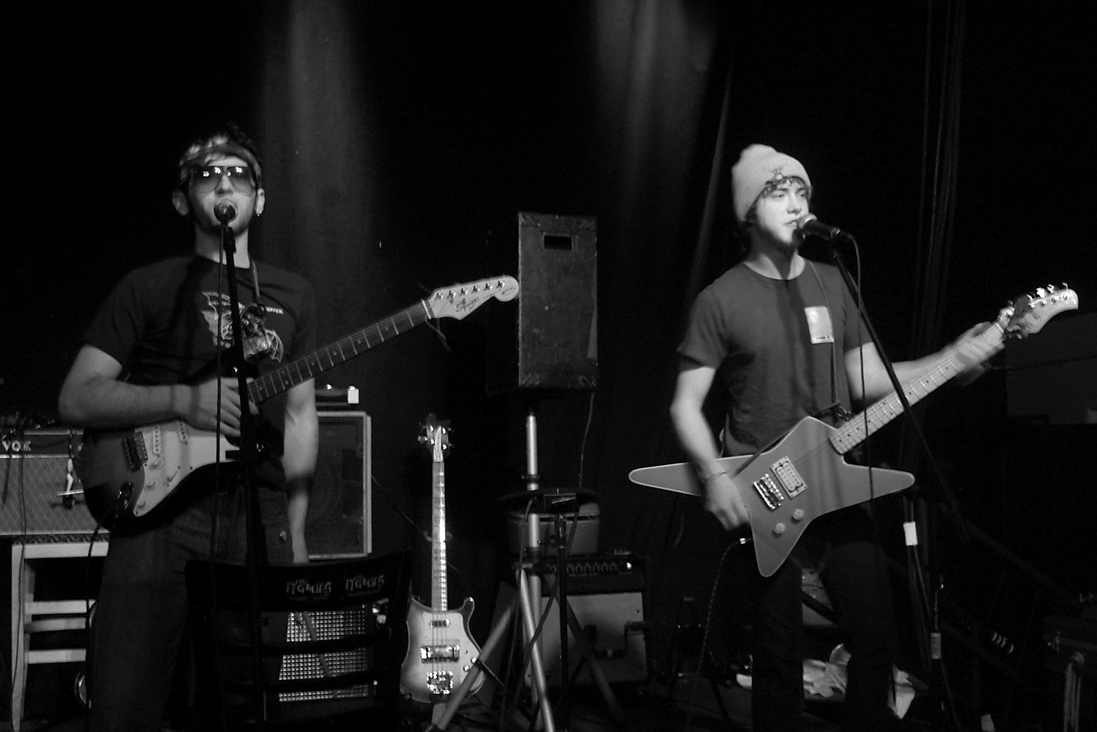 Picture of the band MGMT on their late 2005 tour supporting of Montreal at Higher Ground in Burlington, Vermont.